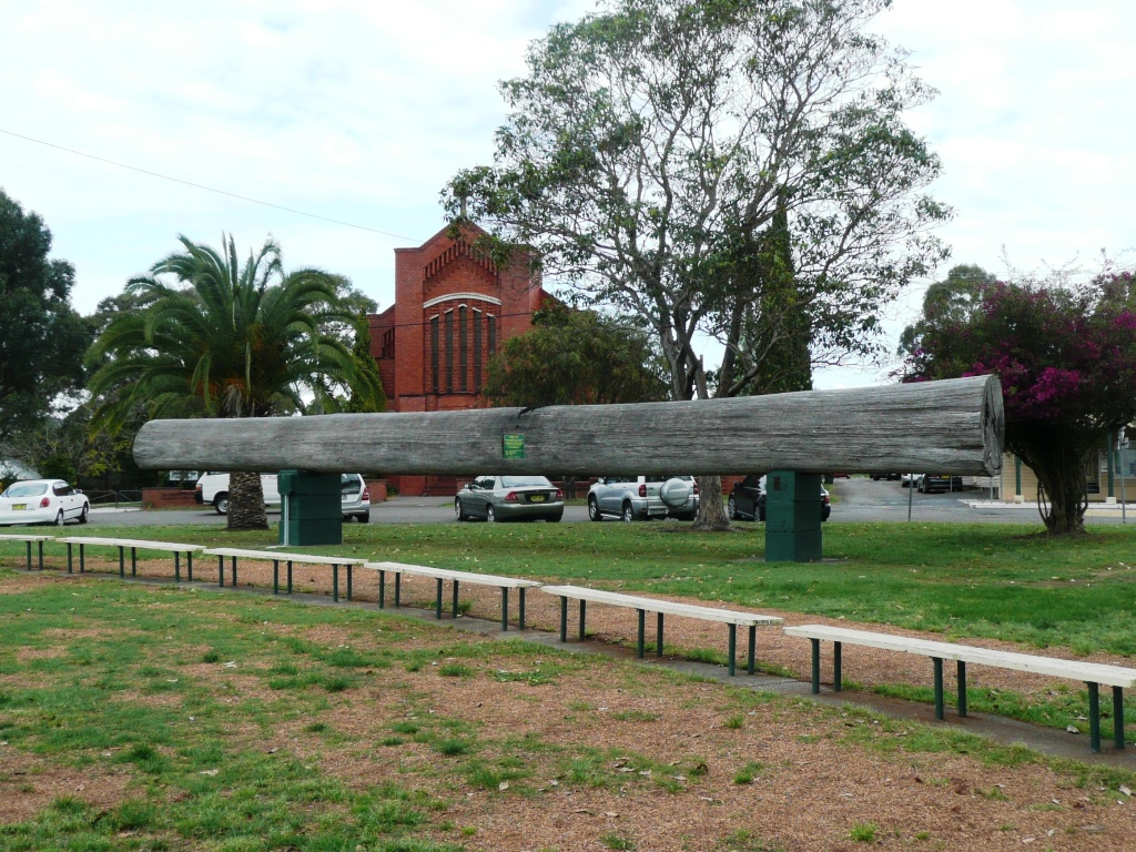 A large log at Central Park, Wingham, with Our Lady of Perpetual Succour Catholic Church in the background.